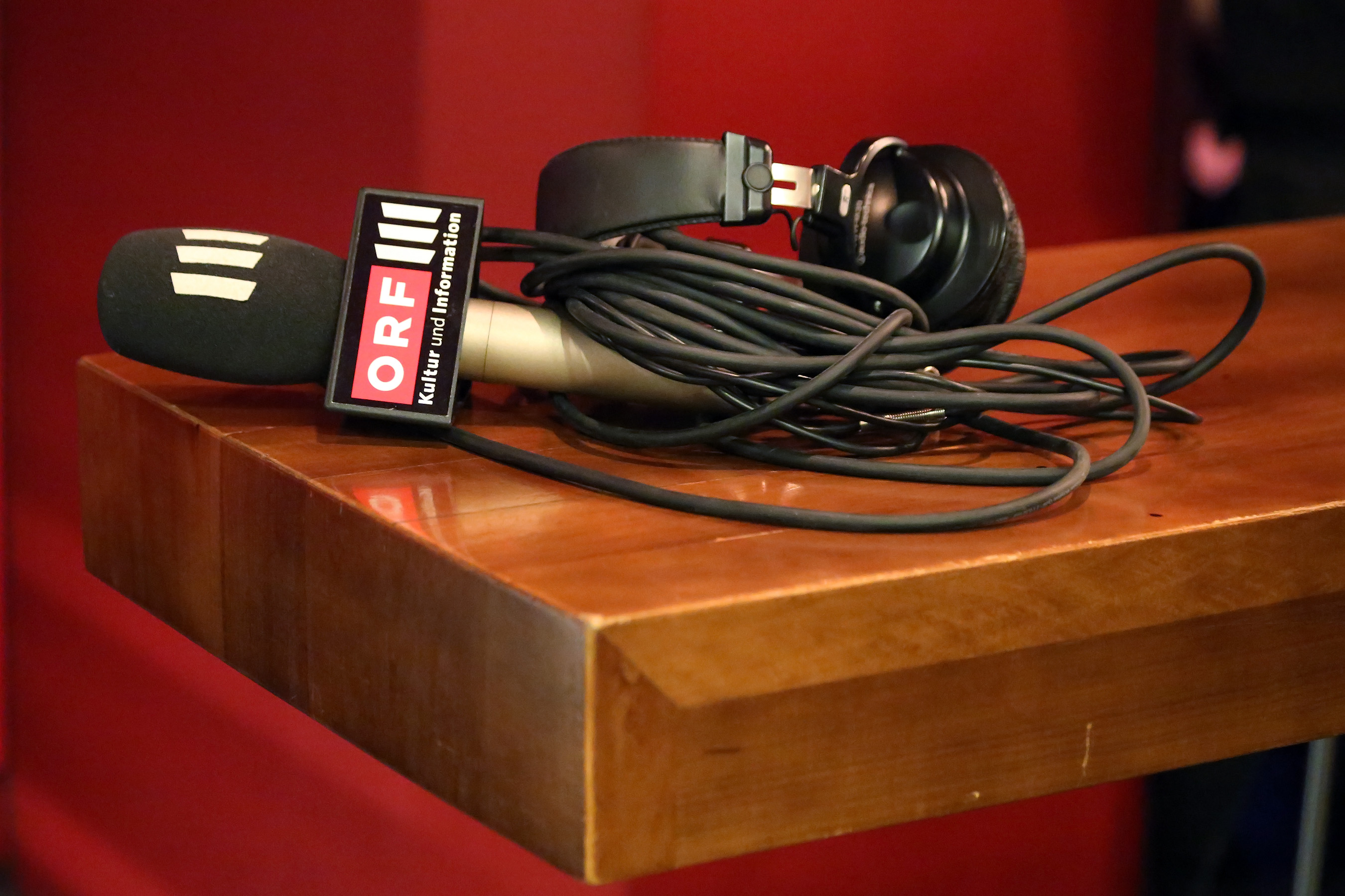 Austrian Cabaret Award 2012 (Porgy & Bess, Vienna).